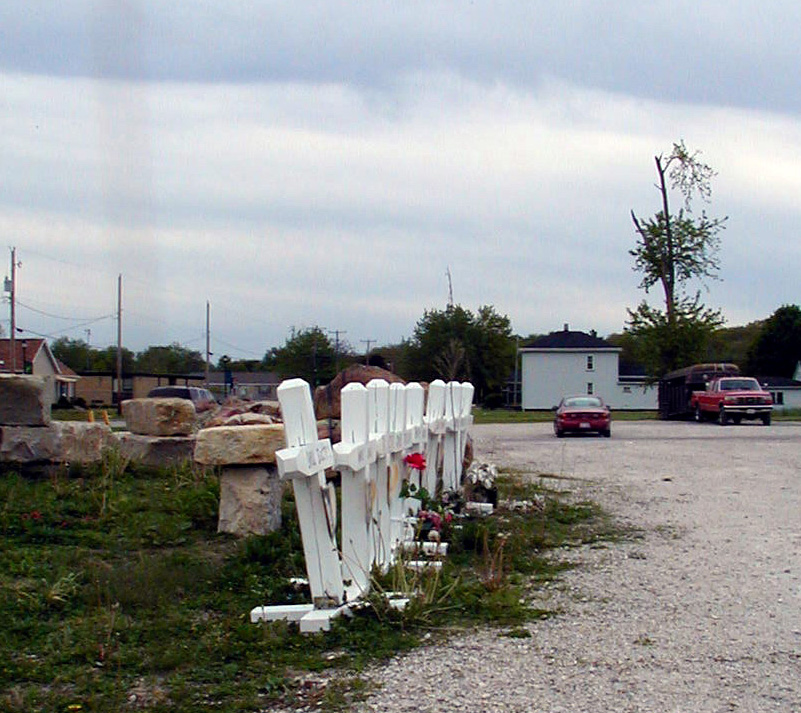 (photo: Crosses for those who died in the Milestone Tap. A ragged tree survived the tornado) Utica Tornado of April 20, 2004 Story by Julia Keller First printed December 5, 6, and7 in the Chicago Tribune. continue to Part 2...